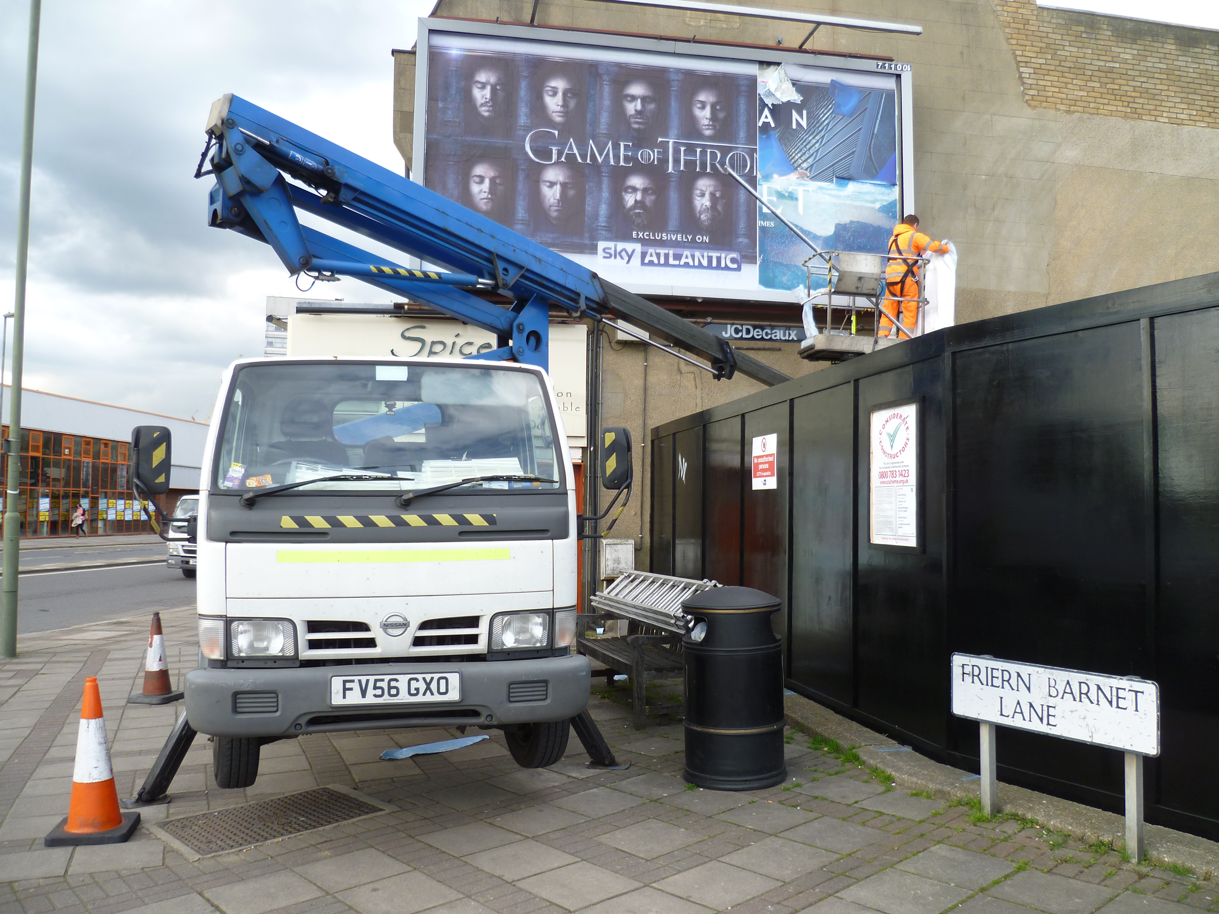 Replacing an advertising poster in London using an articulated platform